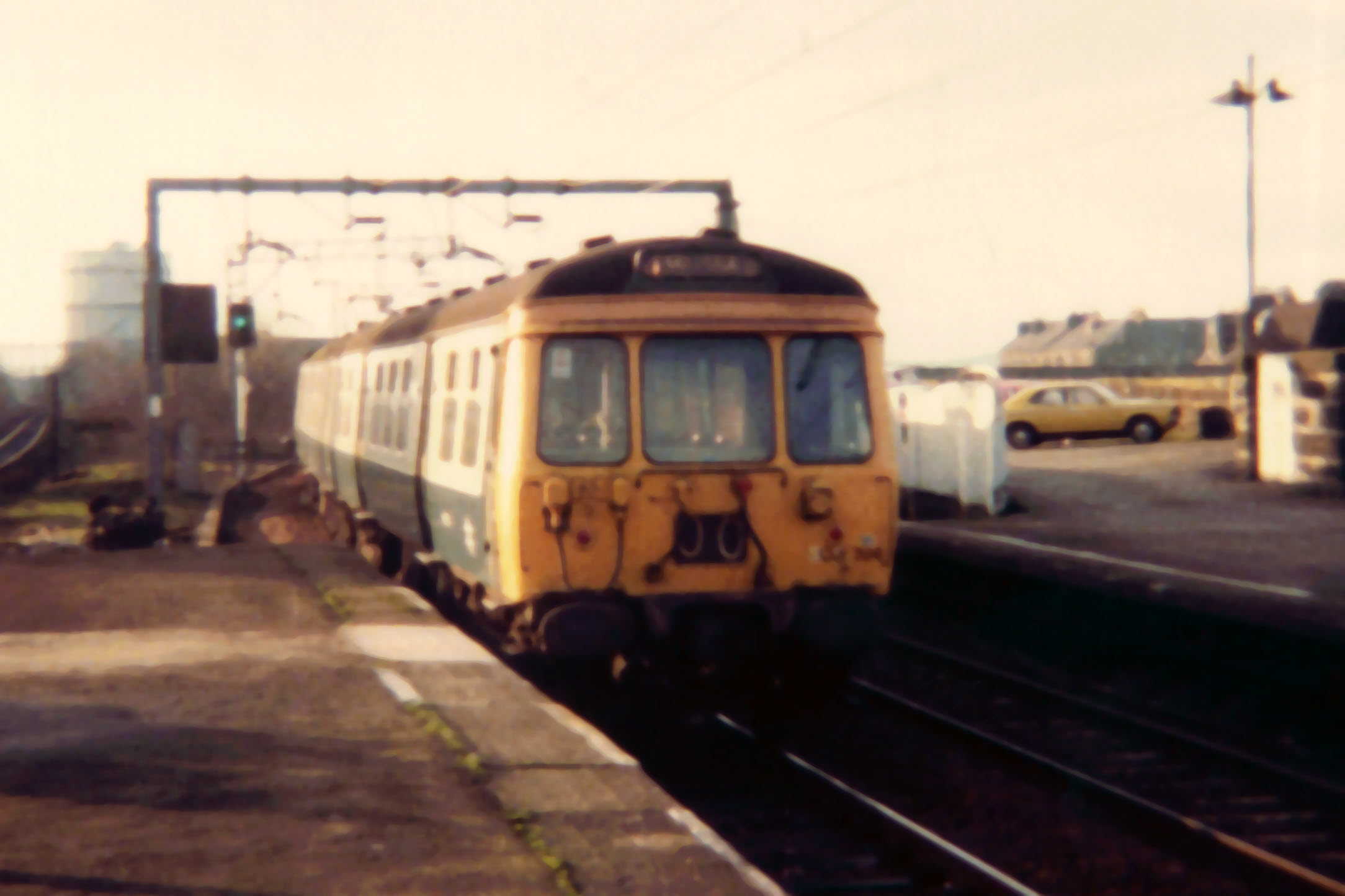 British Rail Class 311 unit 311094 at Paisley Gilmour Street railway station platform 3 on a Glasgow Central to Gourock working.